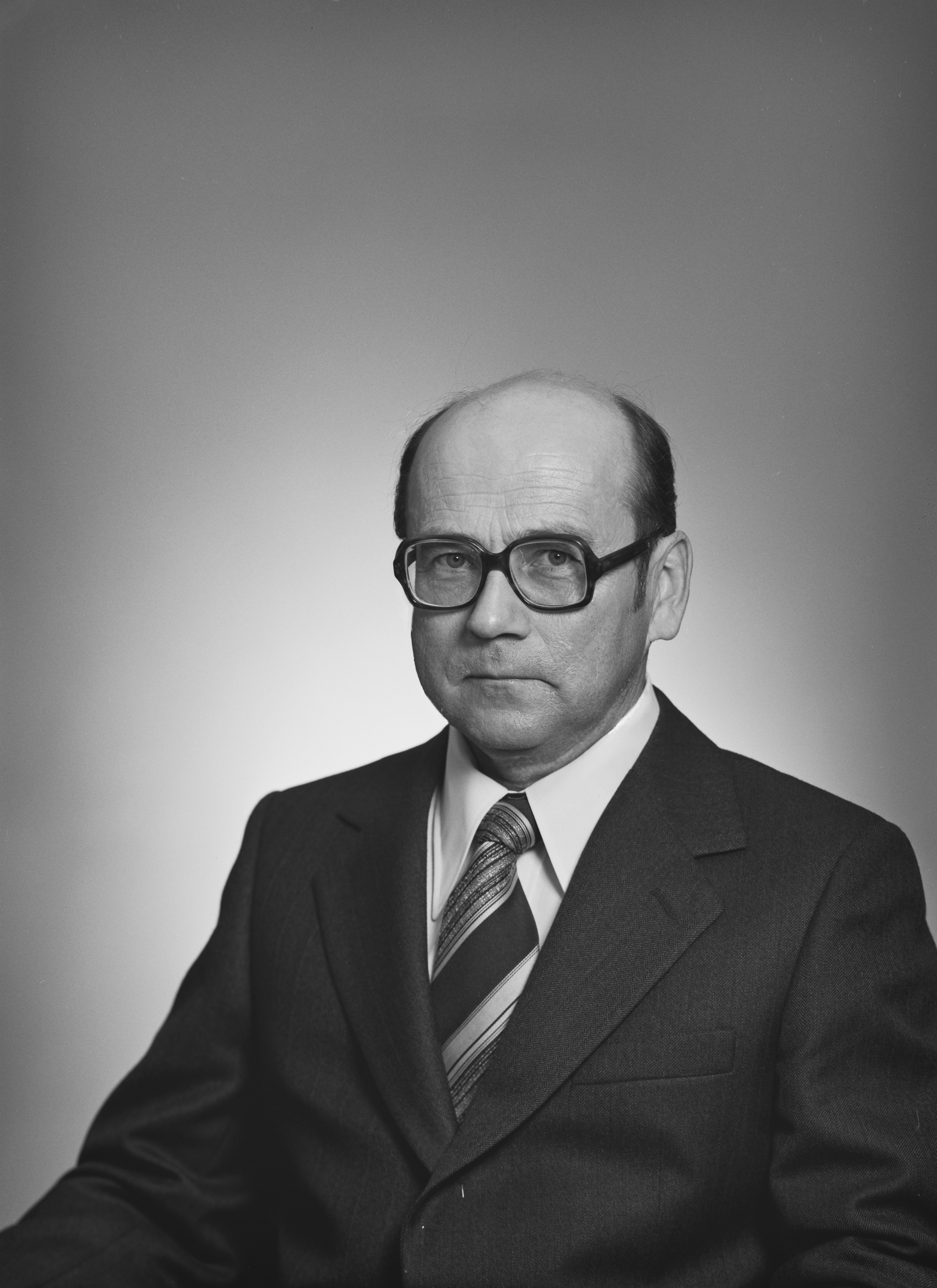 Photograph of the Finnish professor of ship construction Valter Kostilainen (1928–2000).